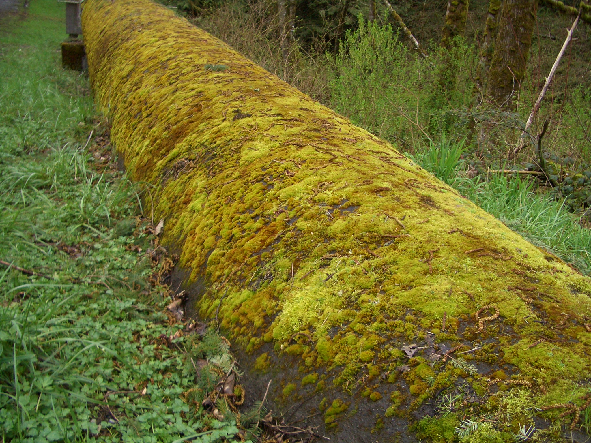 A section of Tolt Pipeline crossing a valley on Tolt Pipeline Trail